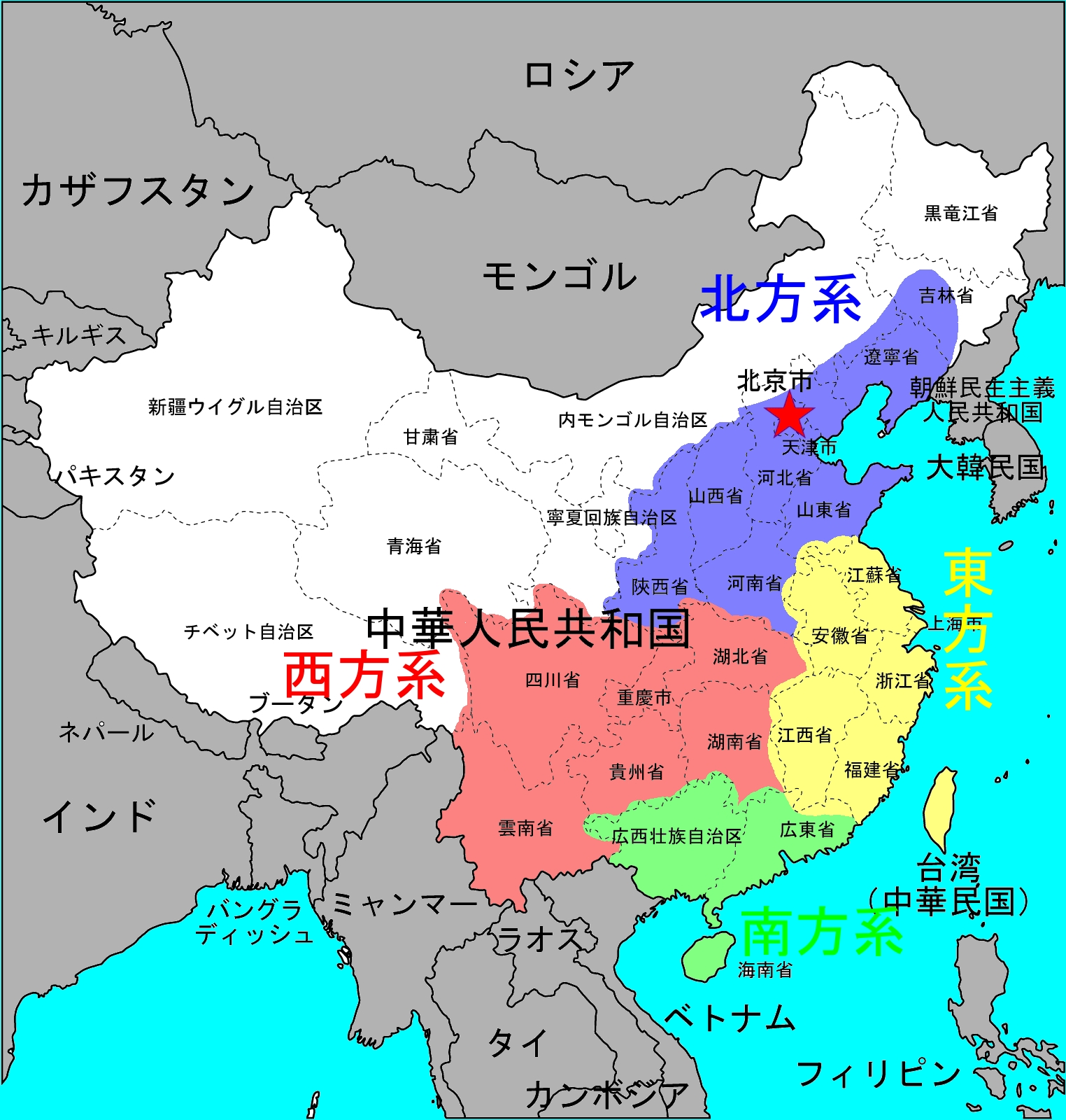 This is the map of Chinese cuisine area map.